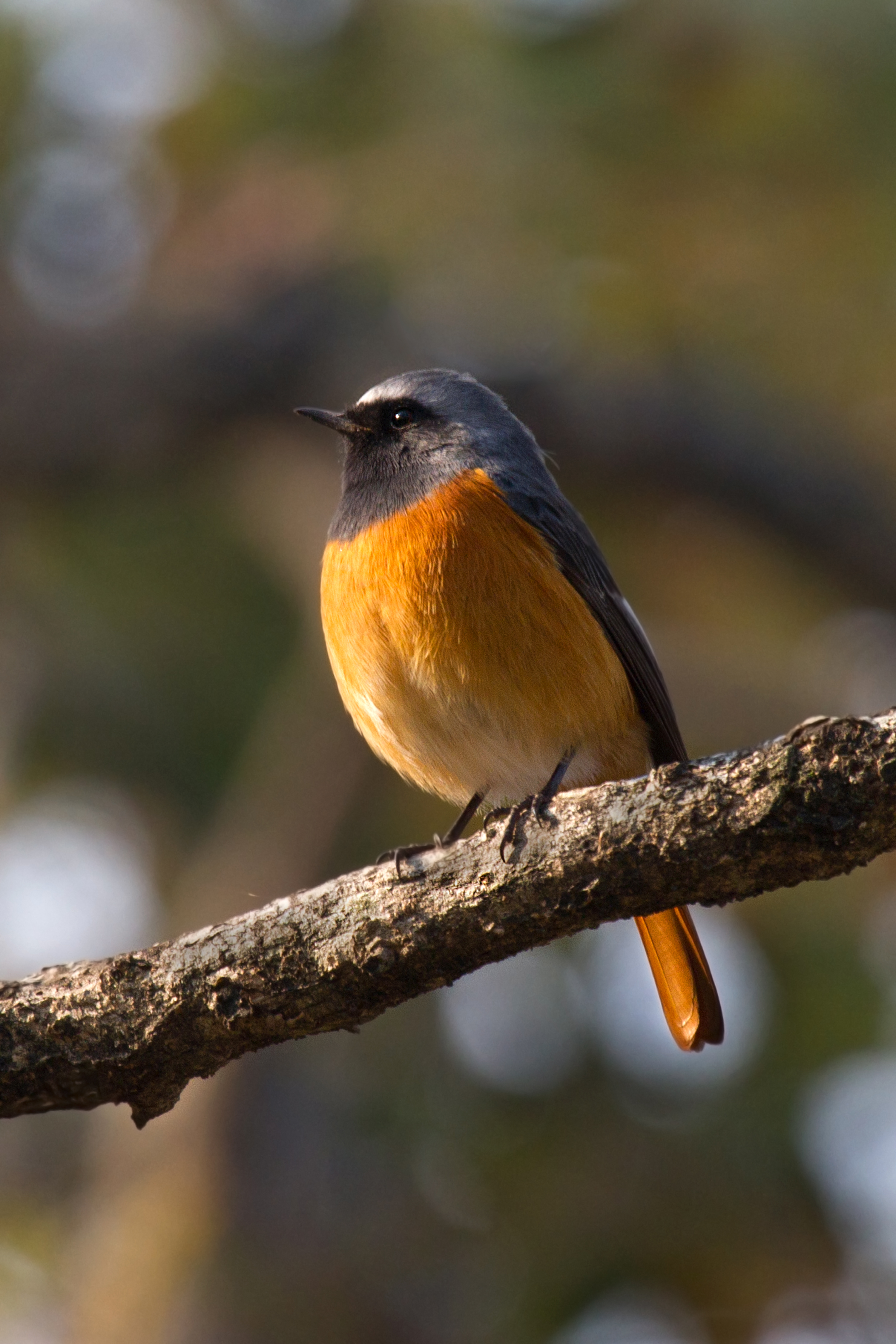 Hodgson's Redstart Male , Manas Wildlife Sanctuary